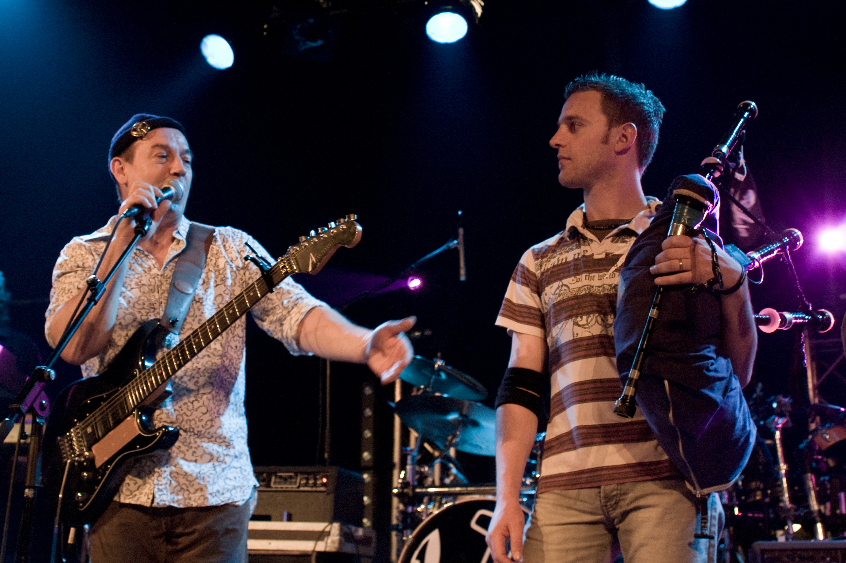 Soldat Louis' show in Monthey. The making of this document was supported by Wikimedia CH. (Submit your project!) For all the files concerned, please see the category Supported by Wikimedia CH.